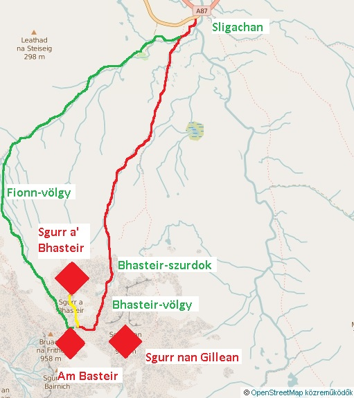 Trails leading to the Am Basteir.